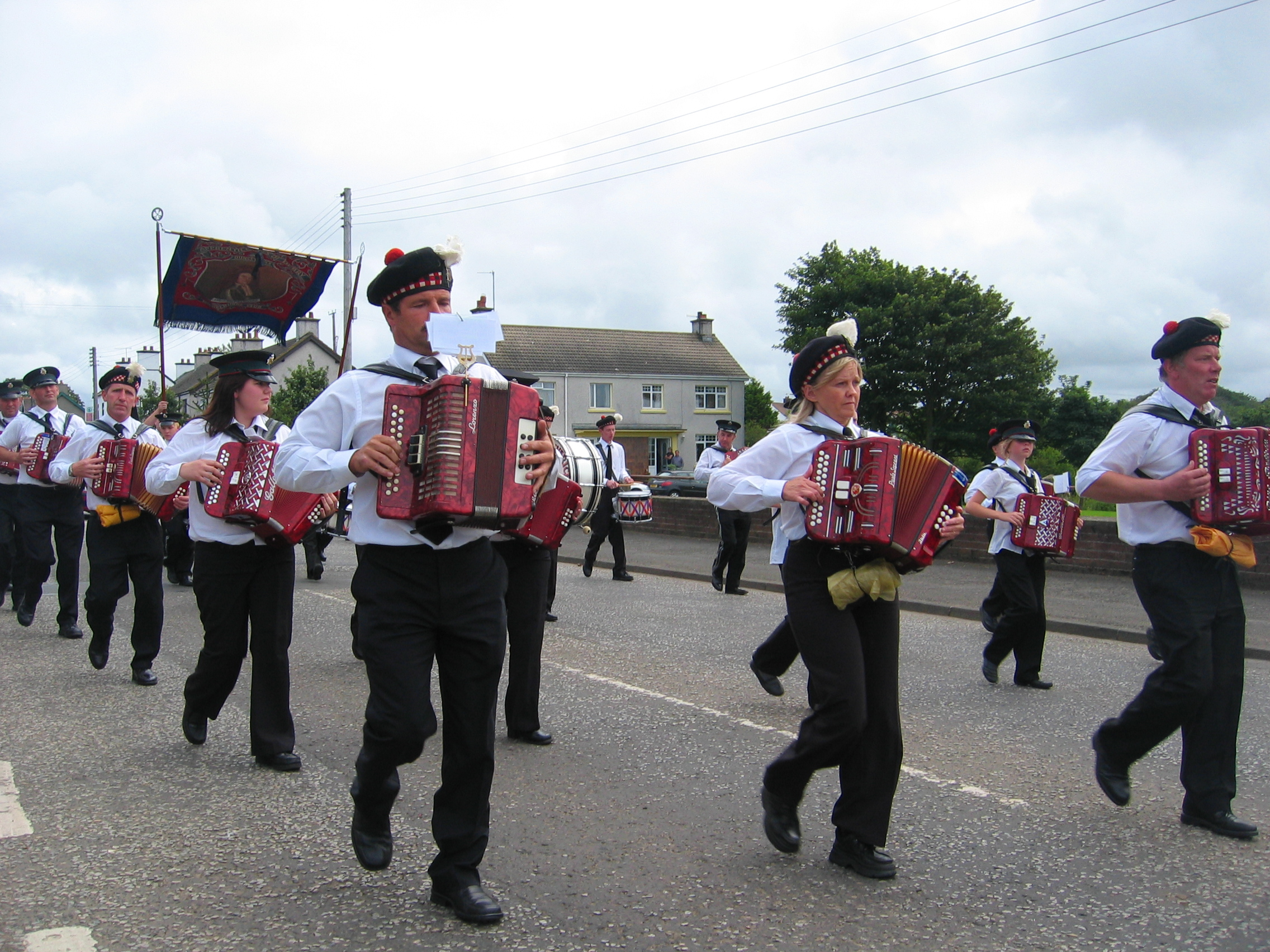 Marching in Bushmills, Northern IrelandApprentice Boys Marching Accordions